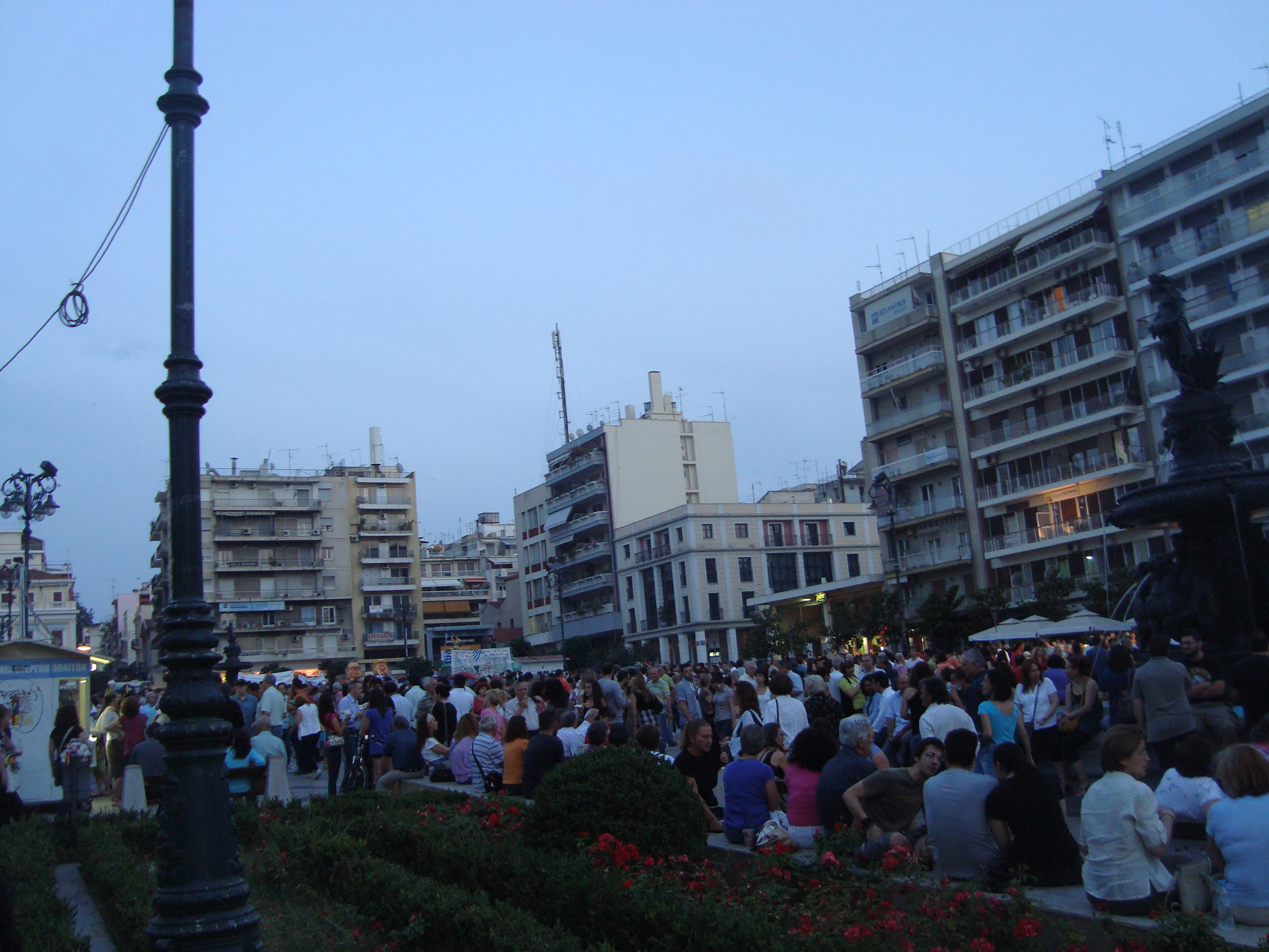 Indignados in Patras 2011